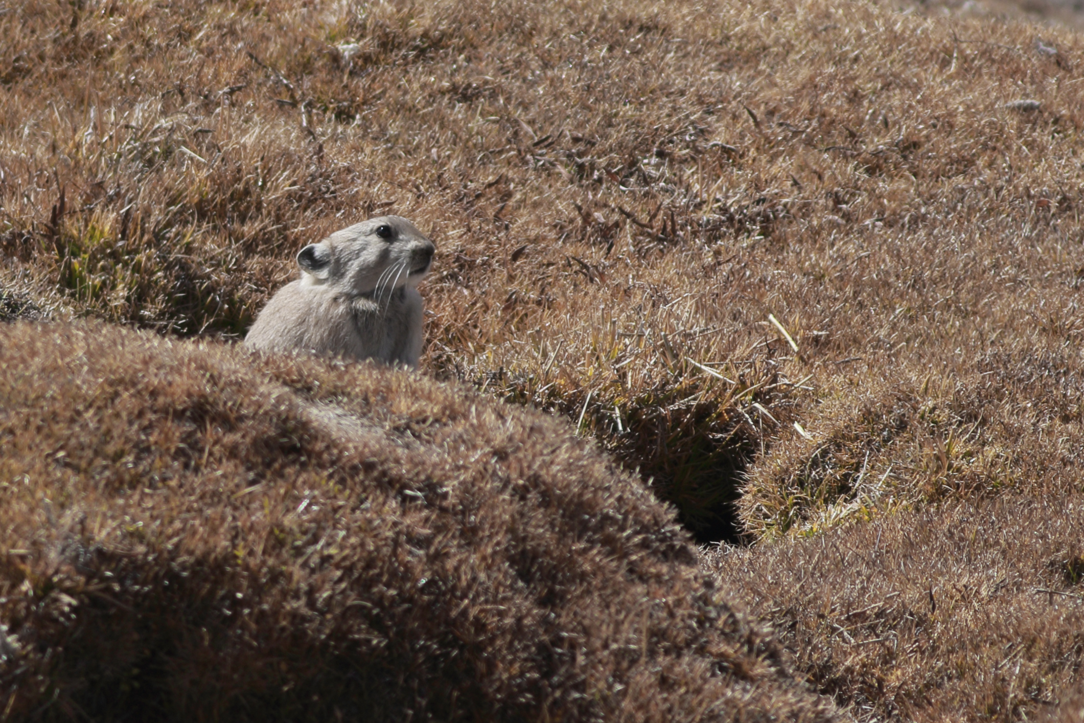 The species Black-lipped Pika or Plateau Pika had been photographed from the wildlife tour from North Sikkim, India on 16.10.2019.